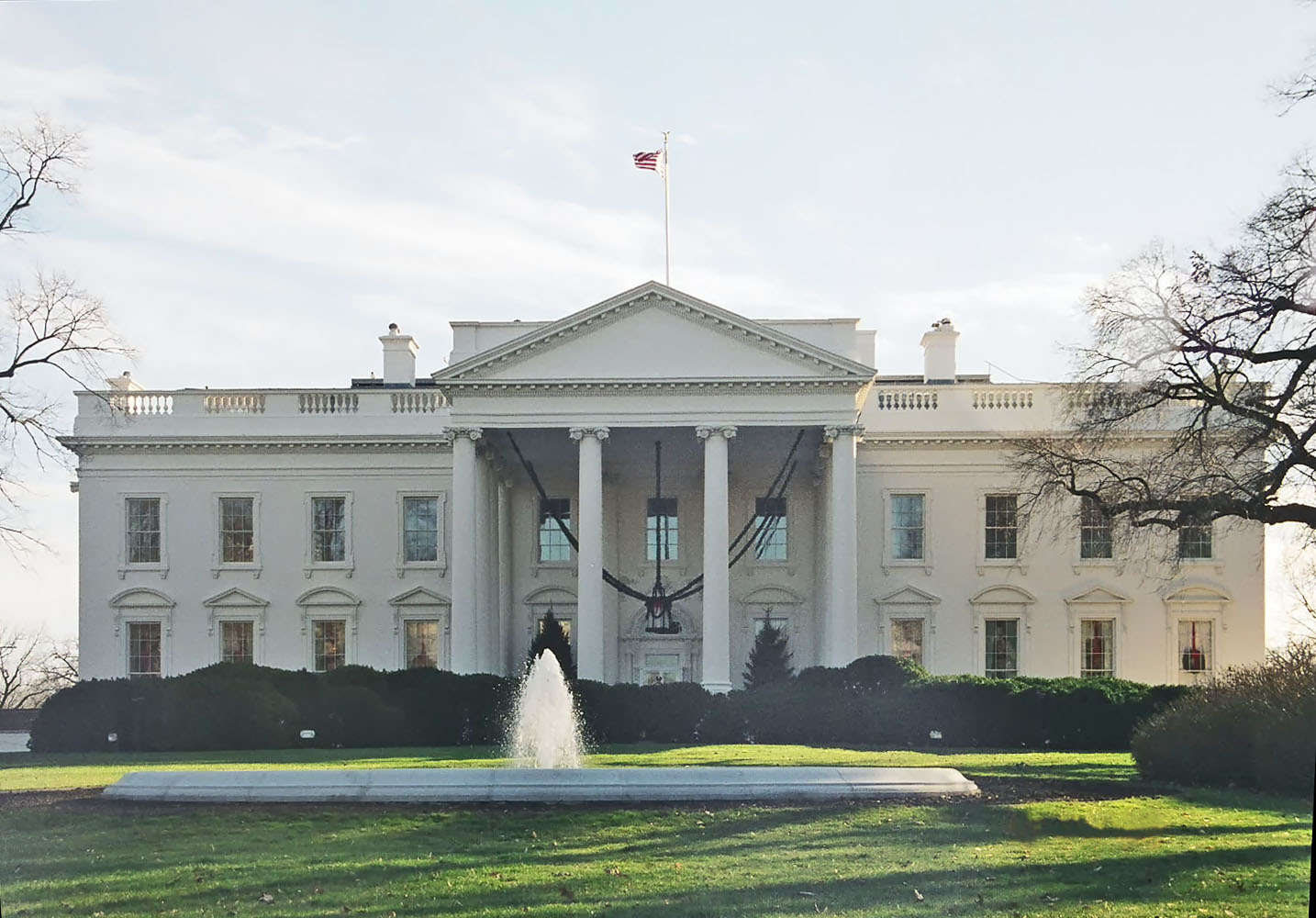 North Side of the White House, Dec 23, 2002.